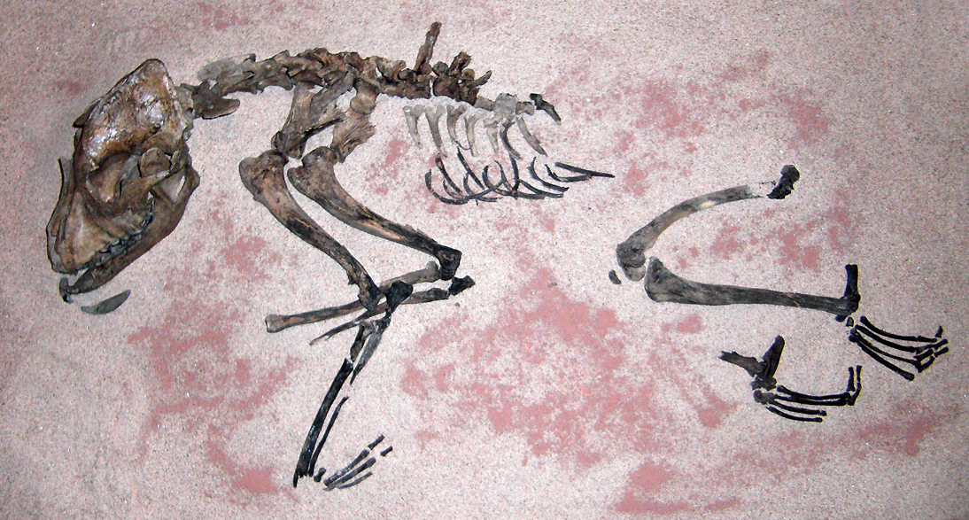 A mesolithic dog skeleton (Canis lupus familiaris) from Almeö at the lake Hornborgasjön, Bjurum parish, Gudhem hundred, Falköping municipality, former Skaraborg county, Västergötland, Sweden. The skeleton was found in the autumn 1983 during an archaeological excavation. The skeleton is 9,300 years old. Since 1994 the skeleton is shown in the prehistoric exhibition at Falbygdens museum in Falköping.